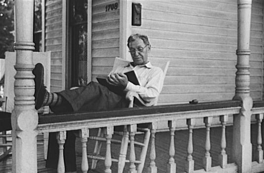 "Front porch. Sunday afternoon, Vincennes, Indiana" 1941. Man leaning back in chair on porch while reading a book.